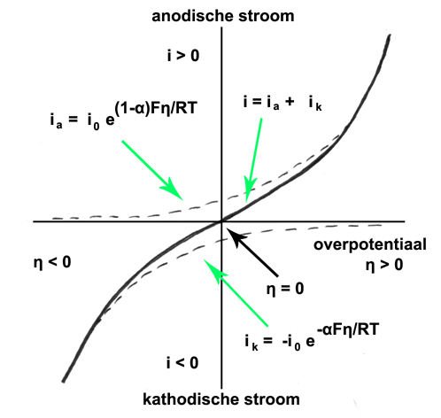 Diagram of the Butler-Volmer equation: current density as a function of overpotential η = E-Eeq. The current density is the sum of the anodic current density ia and the cathodic current density ik.